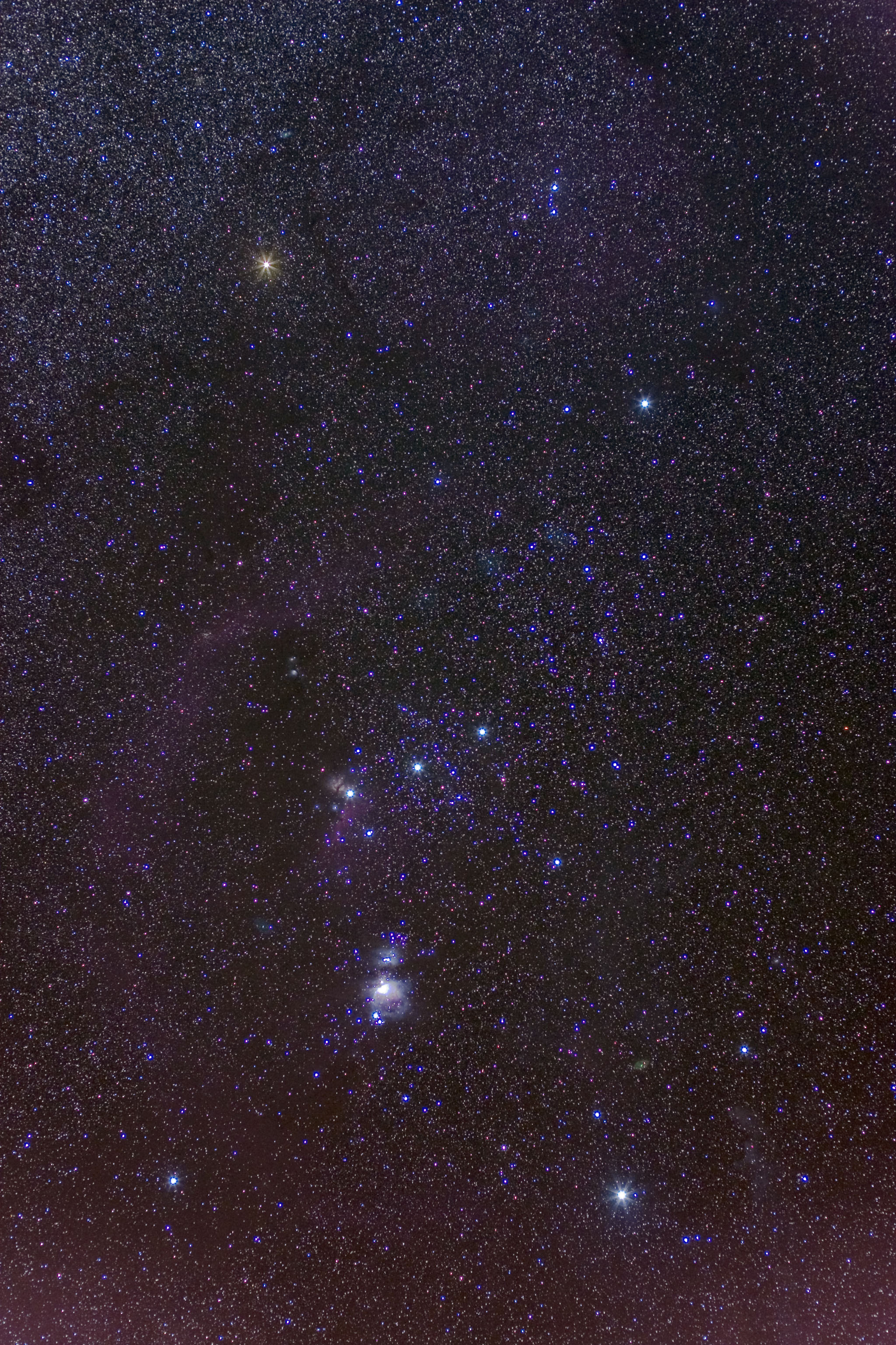 deep sky image of the constellation Orion